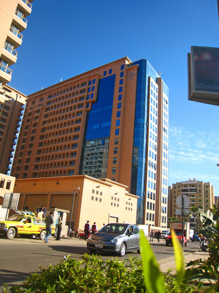 City Stars, Cairo